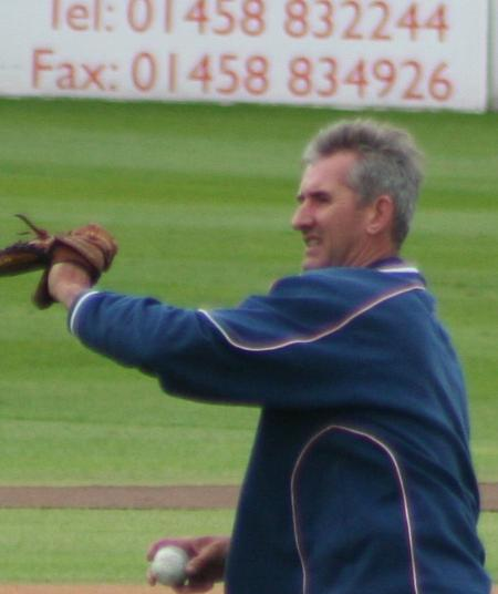 Andy Caddick at Taunton, June 27 2007